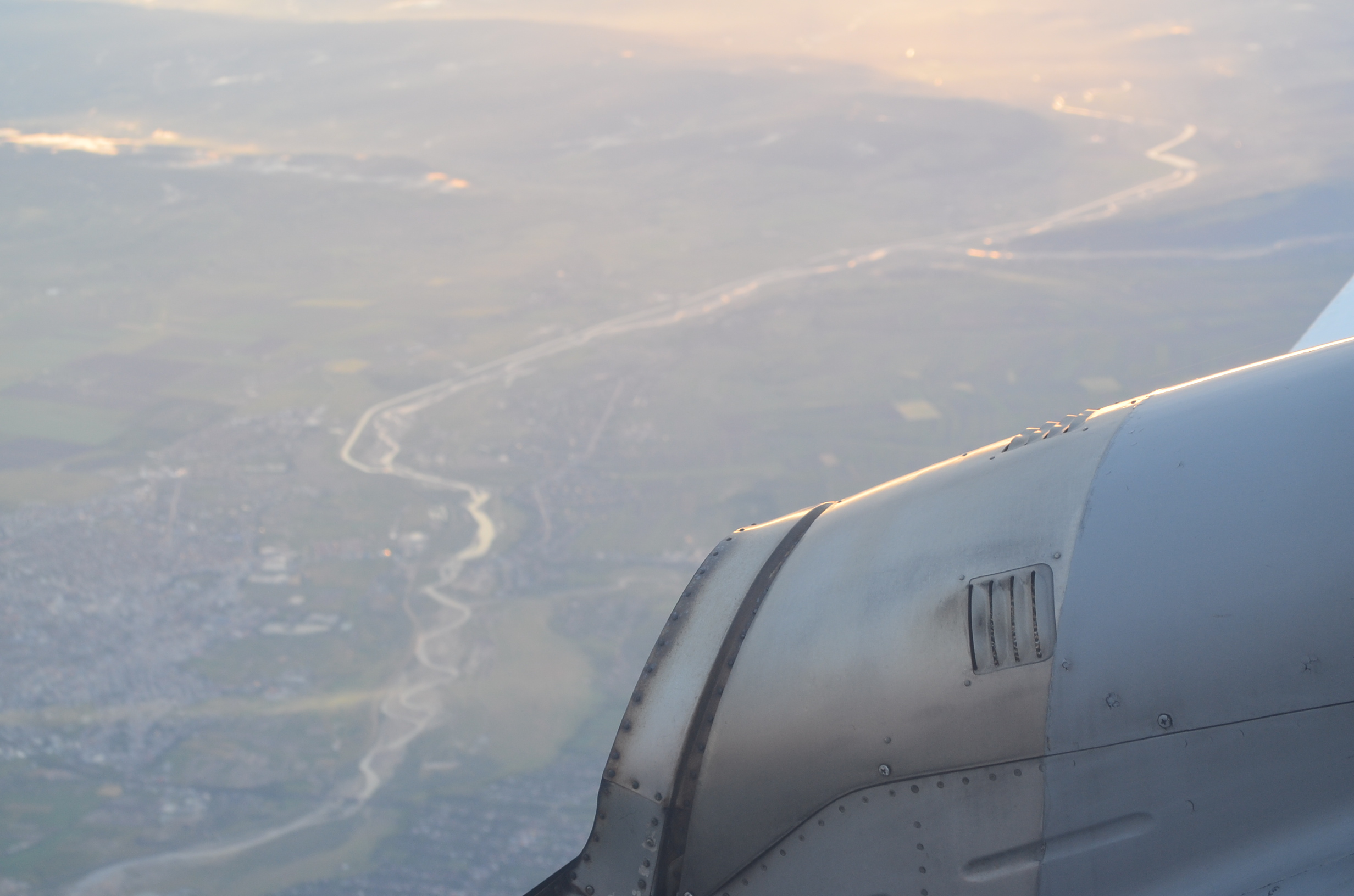 Trip to Moldova and Romania